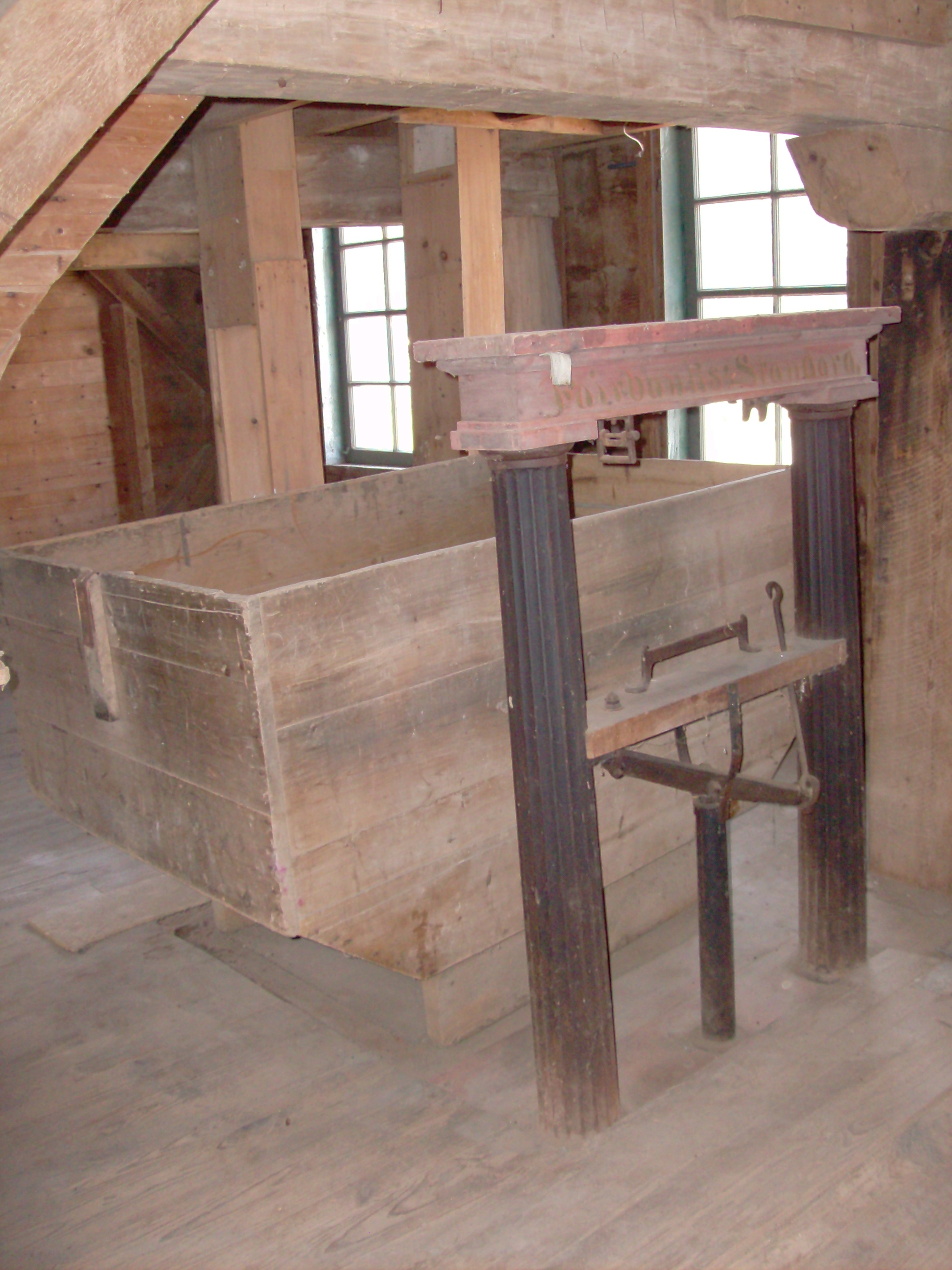 A Scale inside the Caledonia Mill, Caledonia Ontario.